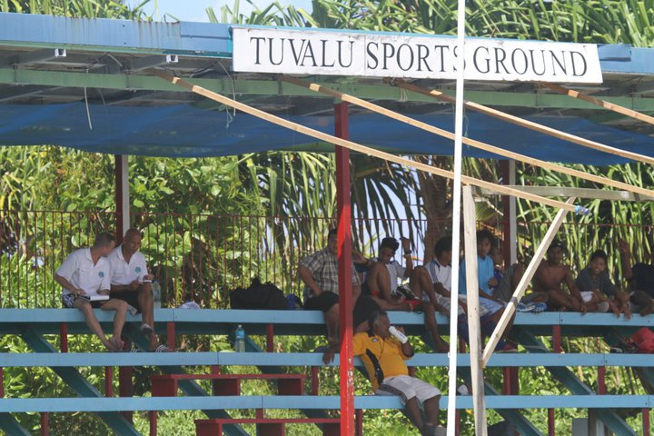 Vaiaku-stadium